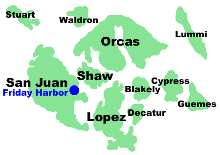 Major islands of the San Juans. My own work.